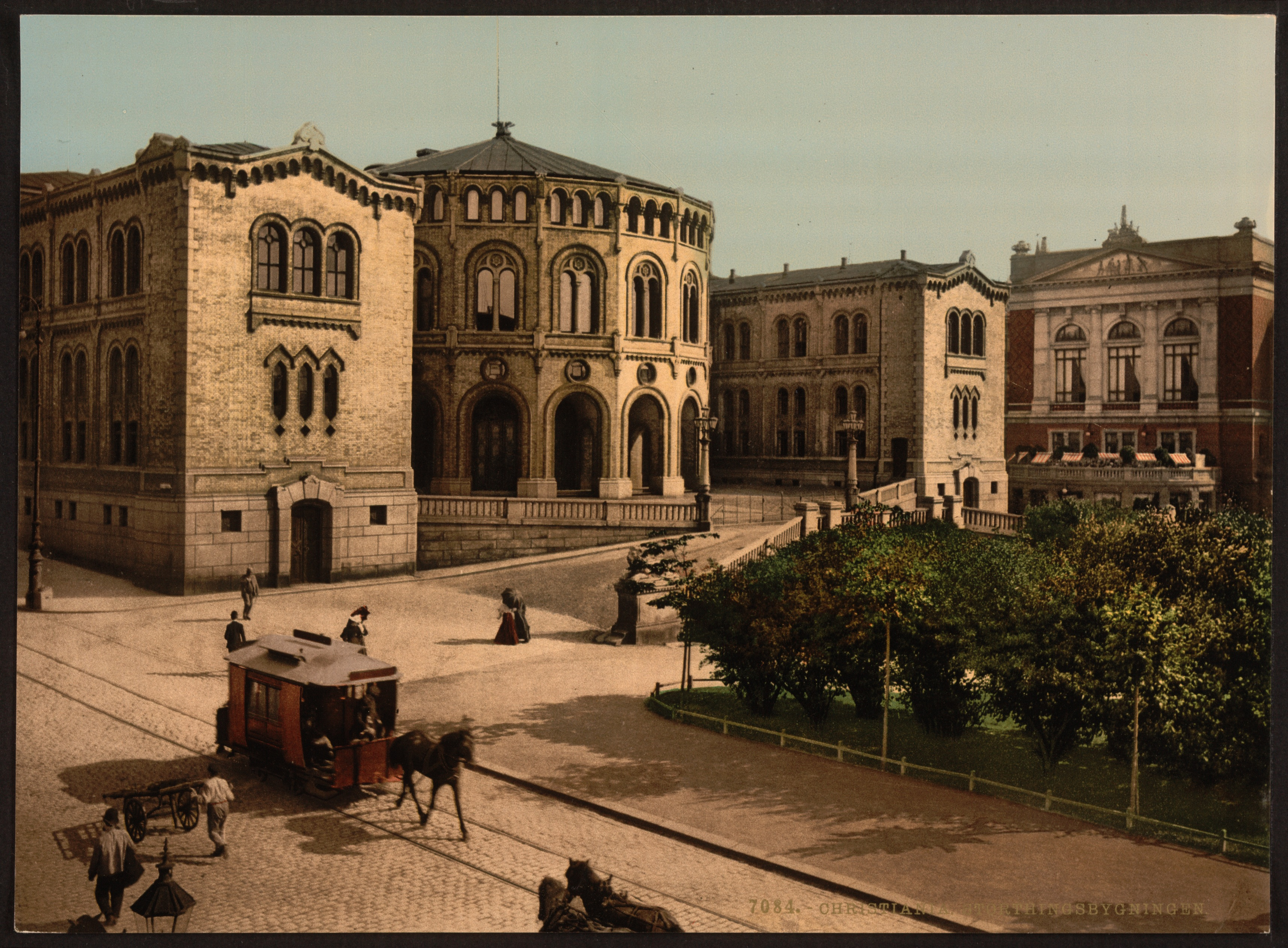 Print shows the Stortingsbygningen, the Norwegian Parliament Building in Oslo (formerly Christiania), Norway. (Source: Flickr Commons project, 2009)